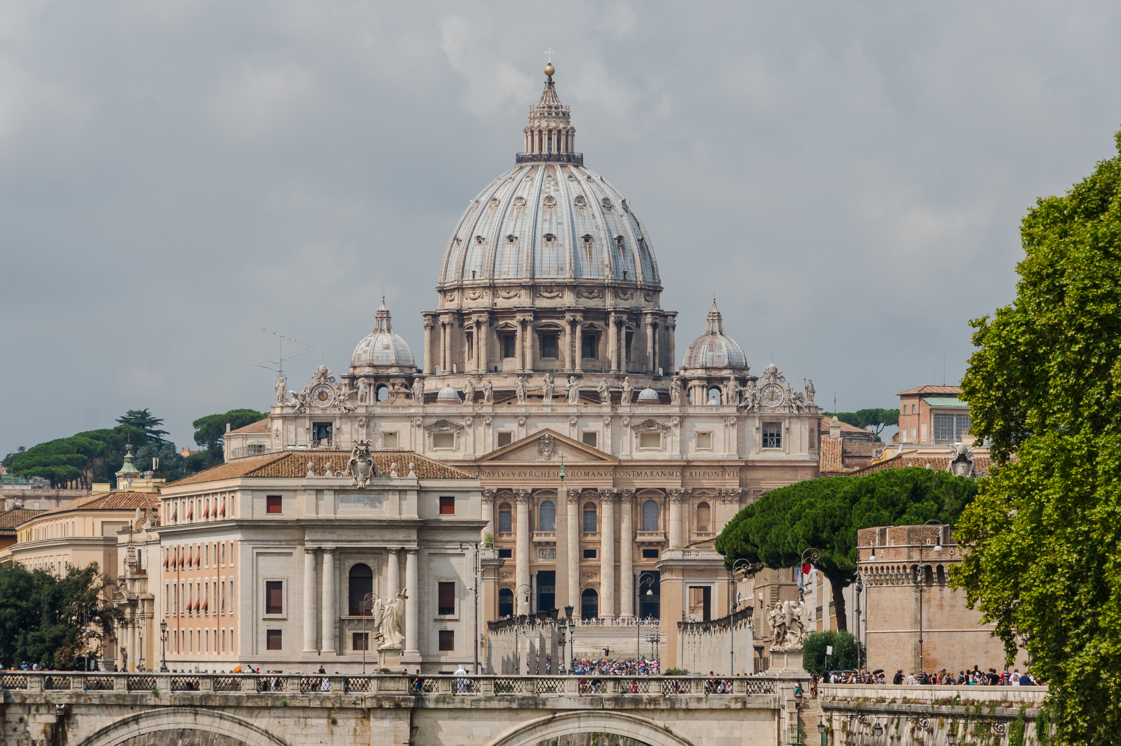 Saint Peter basilica as seen from Umberto I bridge, Rome, Italy.